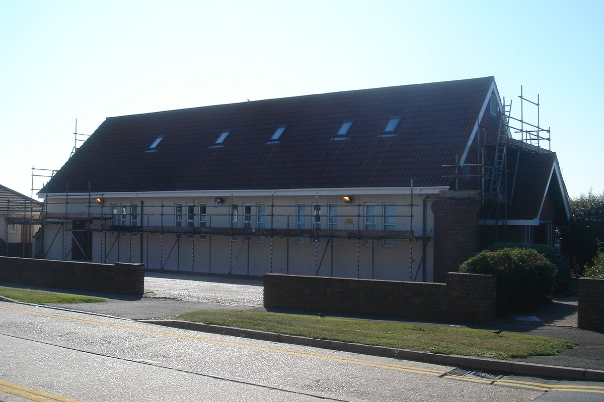 Kingdom Hall of Jehovah's Witnesses, South Coast Road, Peacehaven, District of Lewes, East Sussex, England